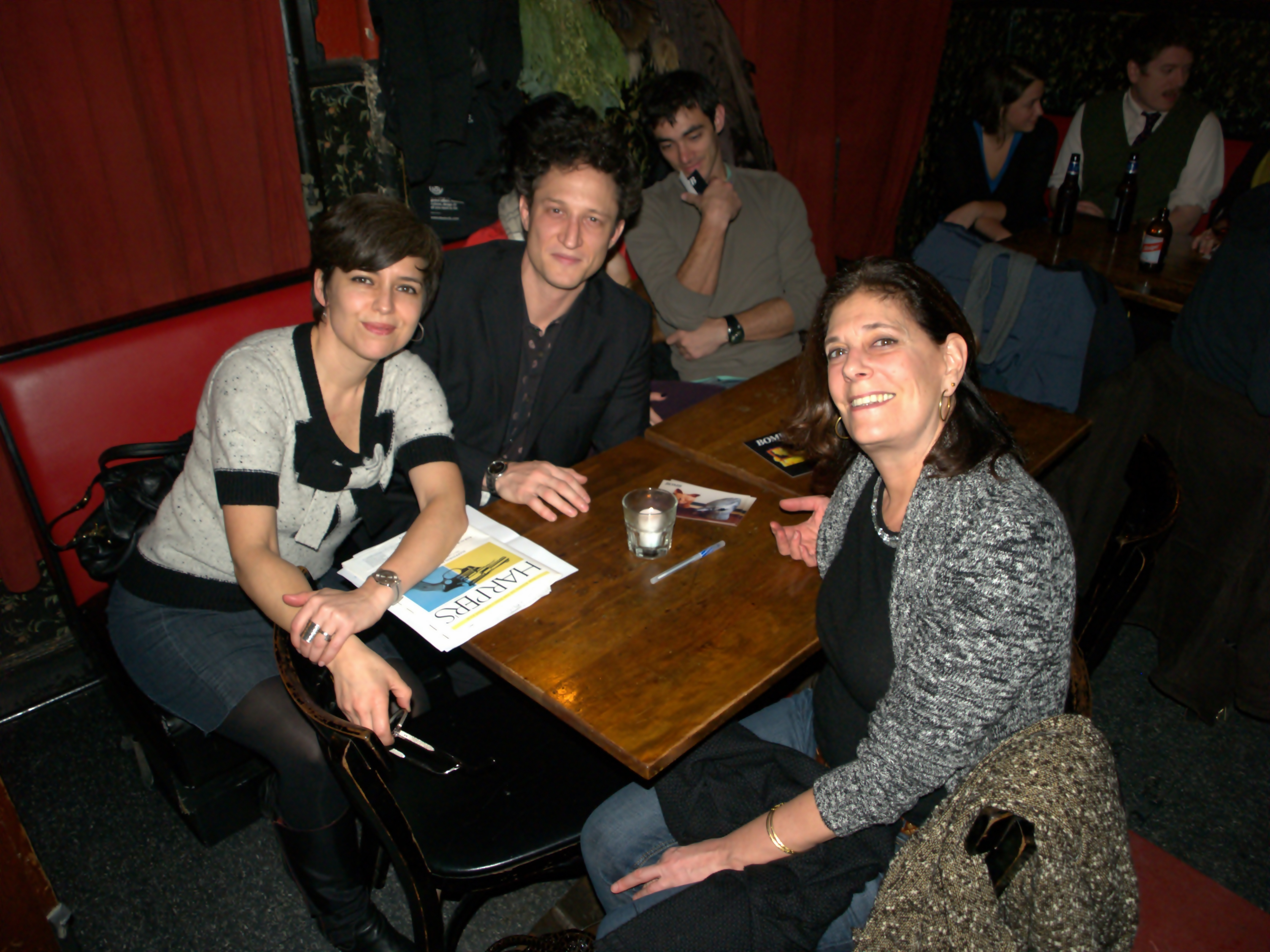 BOMB magazine senior editor Monica de la Torre, author John Reed and BOMB editor-in-chief Betsy Sussler, at KGB bar in New York for the BOMB holiday party and reading.